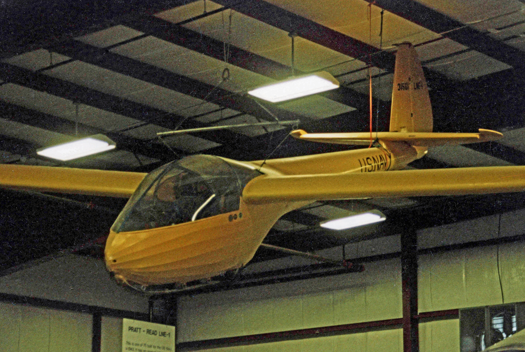 Pratt-Read LNE-1 glider BuAer 31561 exhibited in the New England Air Museum at Bradley Locks airport